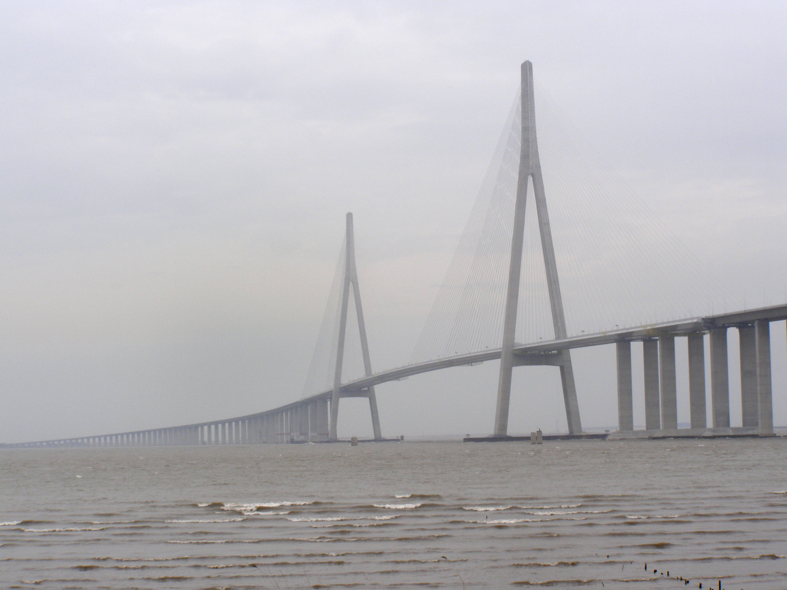 Sutong Bridge between Suzhou and Nantong (Jiangsu) in China